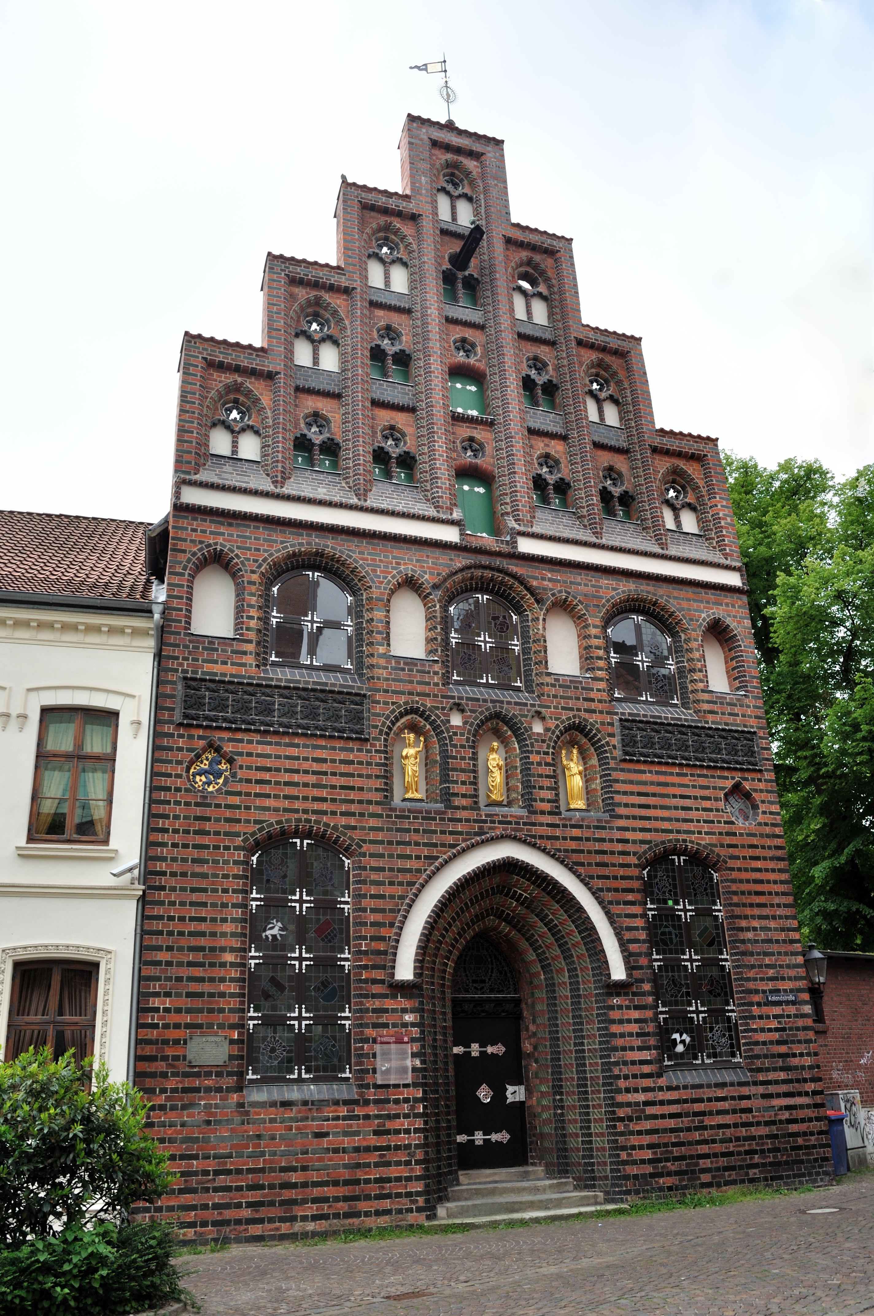 Picture taken in Lüneburg during Skillshare conference.